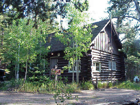 Front and side of the Wild Basin Ranger Station and House, located in Wild Basin in the Boulder County portion of Rocky Mountain National Park in the U.S. state of Colorado. Built in 1932, it is listed on the National Register of Historic Places.